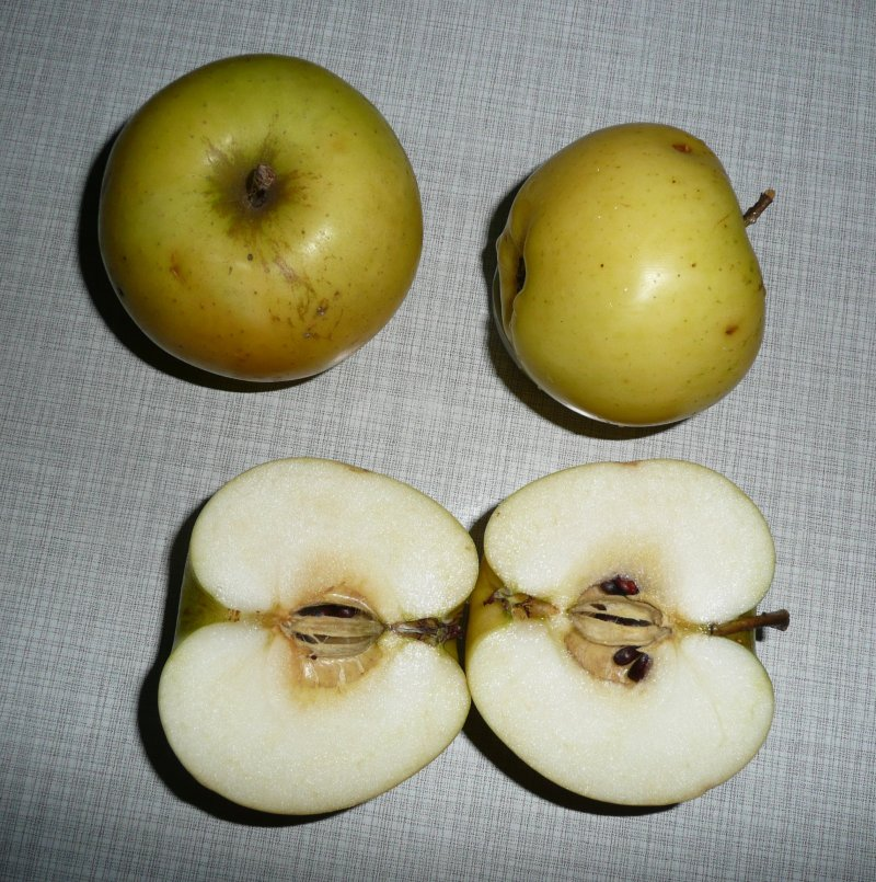 Apple cultivar Landsberger Renette, bought at the market in Erlangen